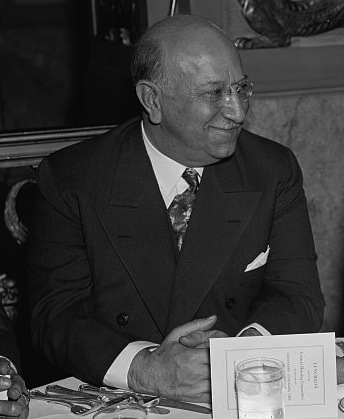 Illinois Chief Executive. Washington, D.C. Jan. 19. Governor Henry Horner, of Illinois, was a guest with the state Governors at the housing luncheon today at the Mayflower Hotel